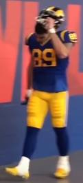 In 2019